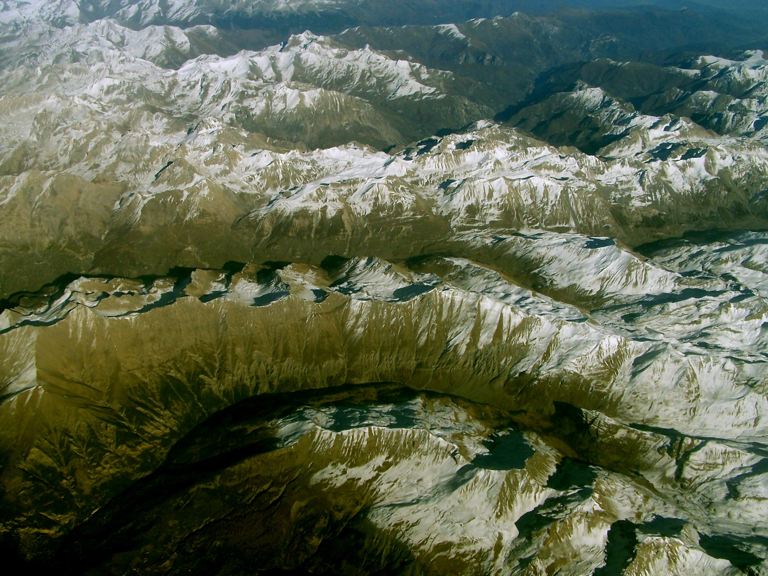 Some mountains on Corsica